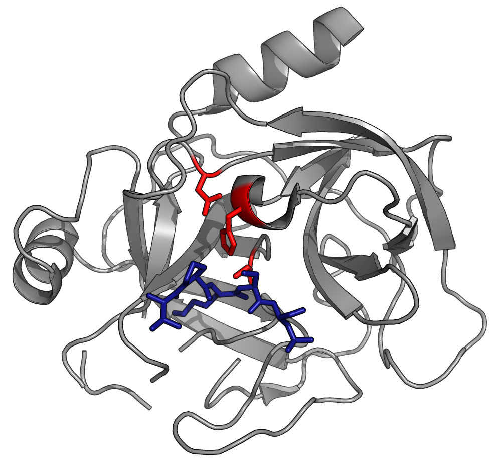 A protease (grey) with serpin reactive centre loop (RCL, blue) bound. Then the protease's catalytic triad (red) begins to cleave the serpin's loop, it becomes trapped in an inactive conformation. (PDB: 1K9O​)